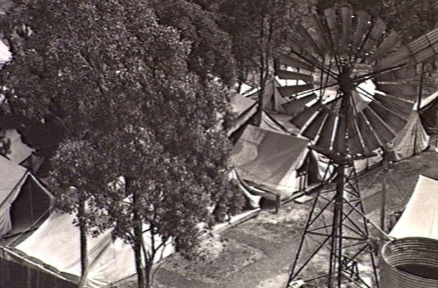 RINGWOOD, VIC 1943-05-04. GENERAL VIEW OF TENTS OCCUPIED BY PERSONNEL OF THE AUSTRALIAN WOMEN'S ARMY SERVICE WHO ARE SERVING WITH LAND HEADQUARTERS HEAVY WIRELESS GROUP. THE TENTS ARE ADJACENT TO PARK ORCHARDS CHALET, THE ADMINISTRATIVE HEADQUARTERS OF THE GROUP.